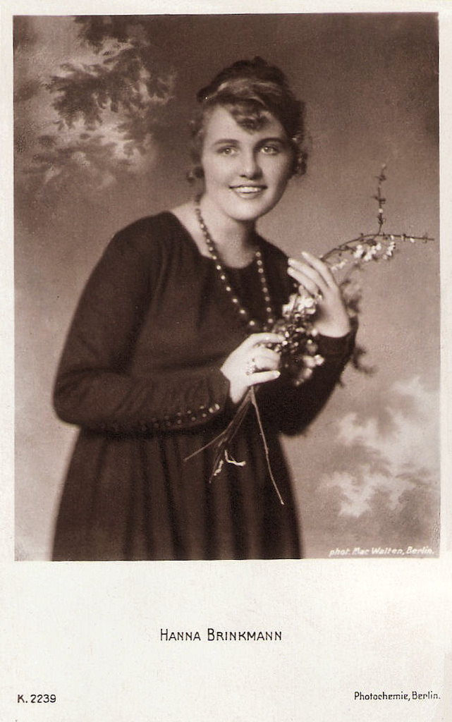 Portrait of actress Hanne Brinkmann, German postcard by Photochemie, Berlin, no. K 2239. Photo: Mac Walten, Berlin